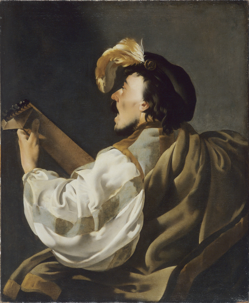 Painting by Hendrick Ter Brugghen, Un chanteur s'accompagnant au luth, before 1629, Musée des Beaux-Arts de Bordeaux.